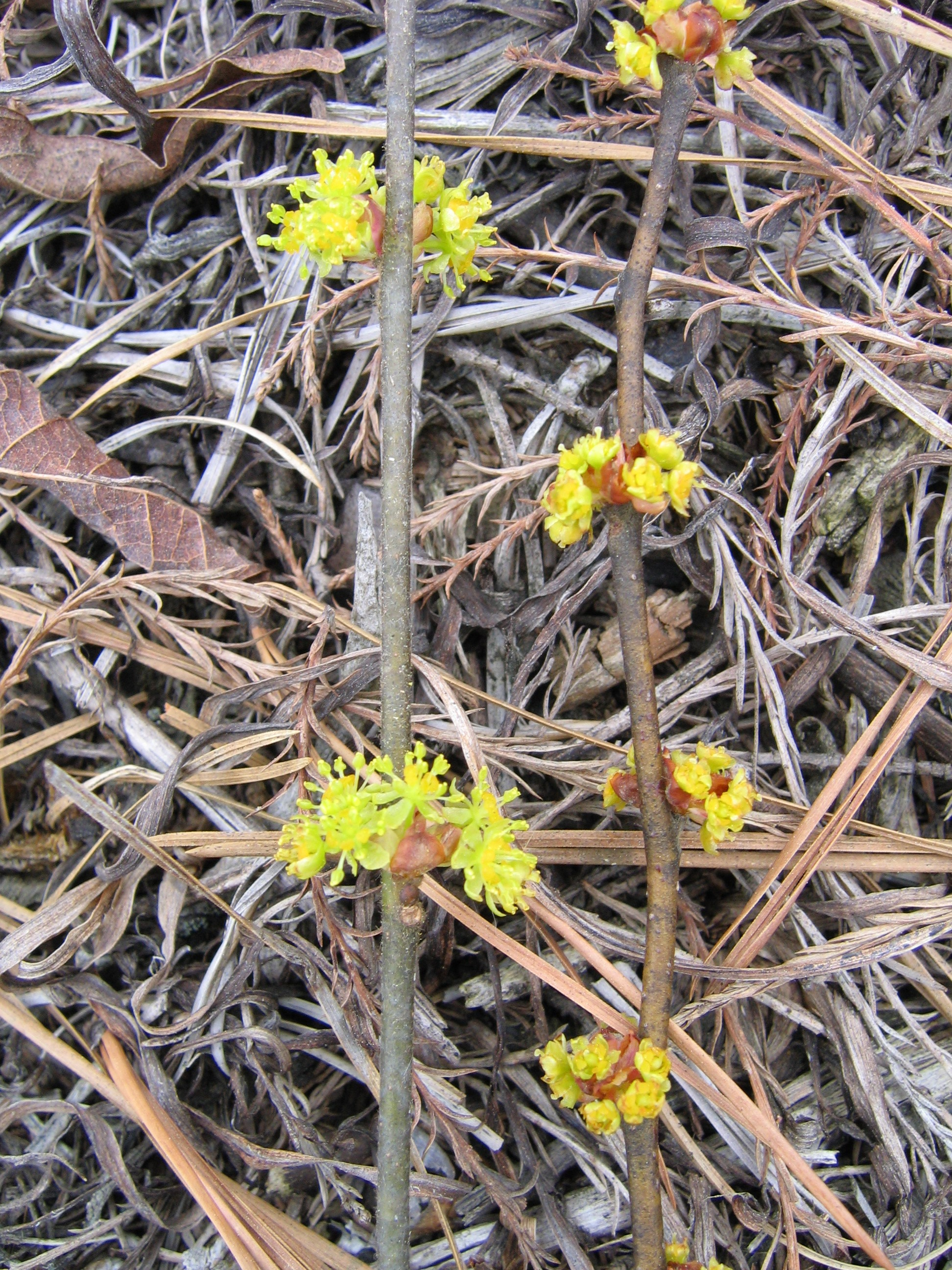 Pondberry